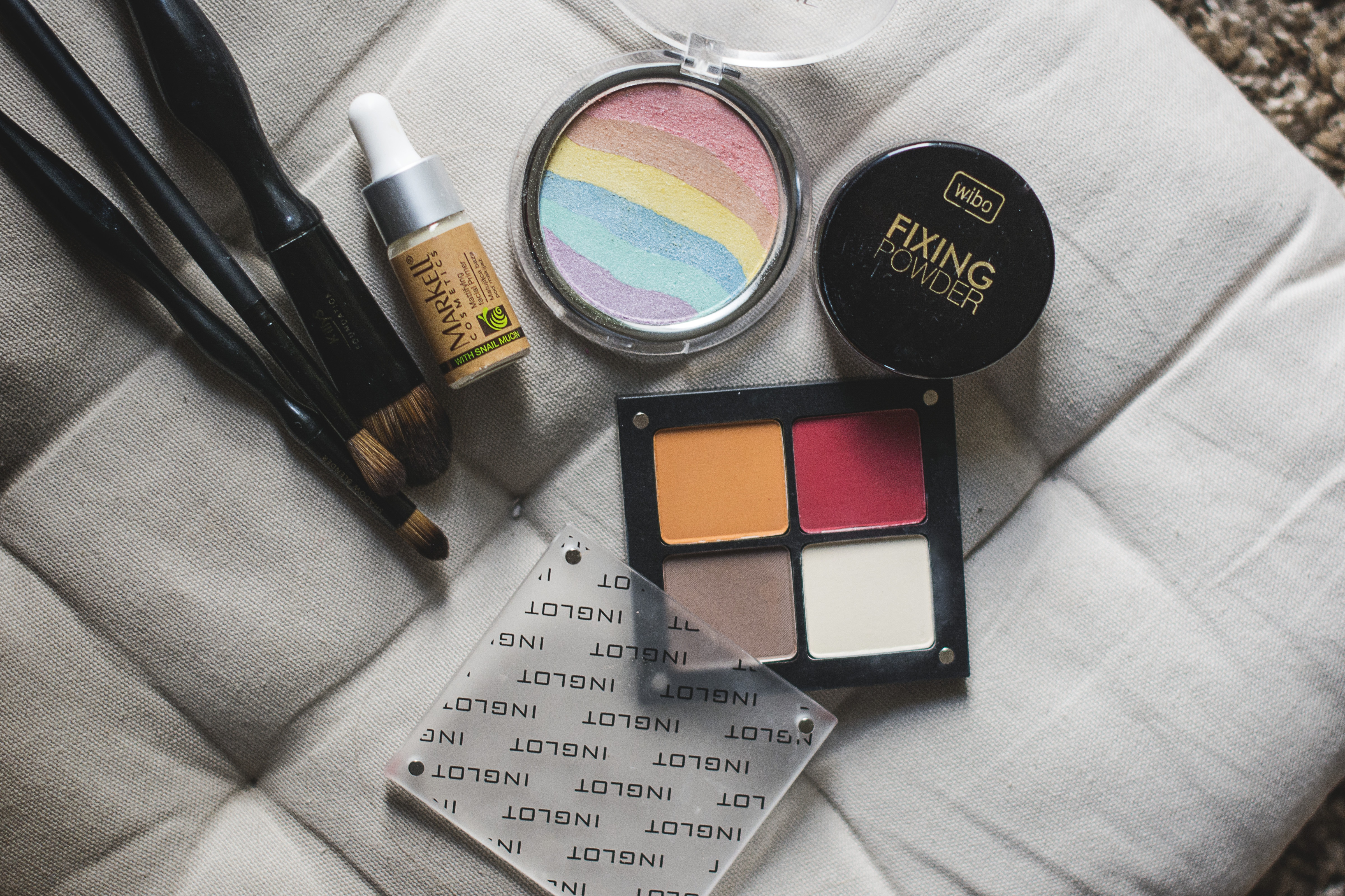 Make up cosmetics